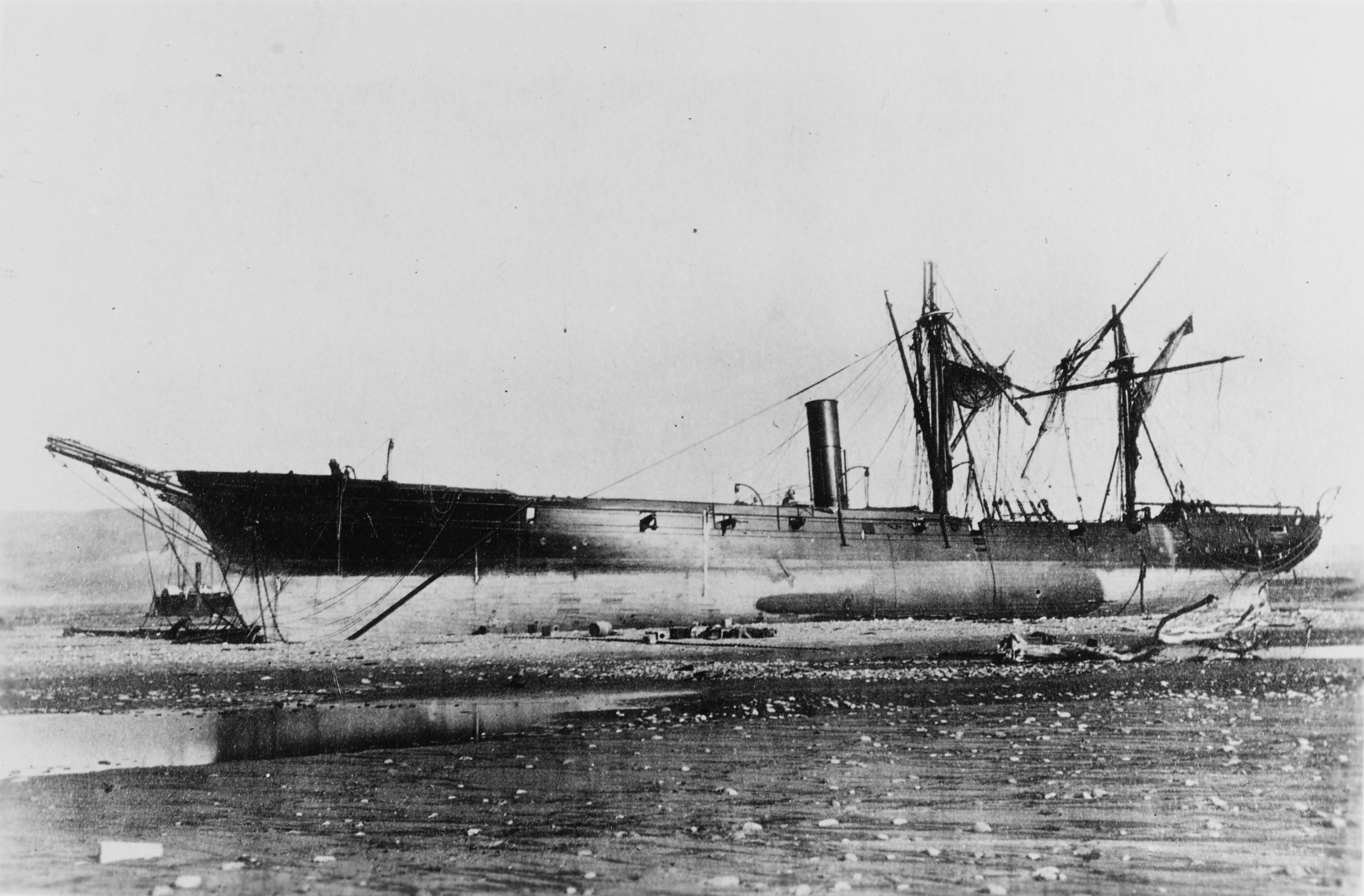 Beached and partially dismasted at Arica, Chile, following the 13 August 1868 tidal wave that washed her and other vessels ashore. Photographed from the seaward side. Ship in the distance, beyond America's bow, is USS Wateree. This photograph was received from Captain Dudley W. Knox in 1934. U.S. Naval History and Heritage Command Photograph.